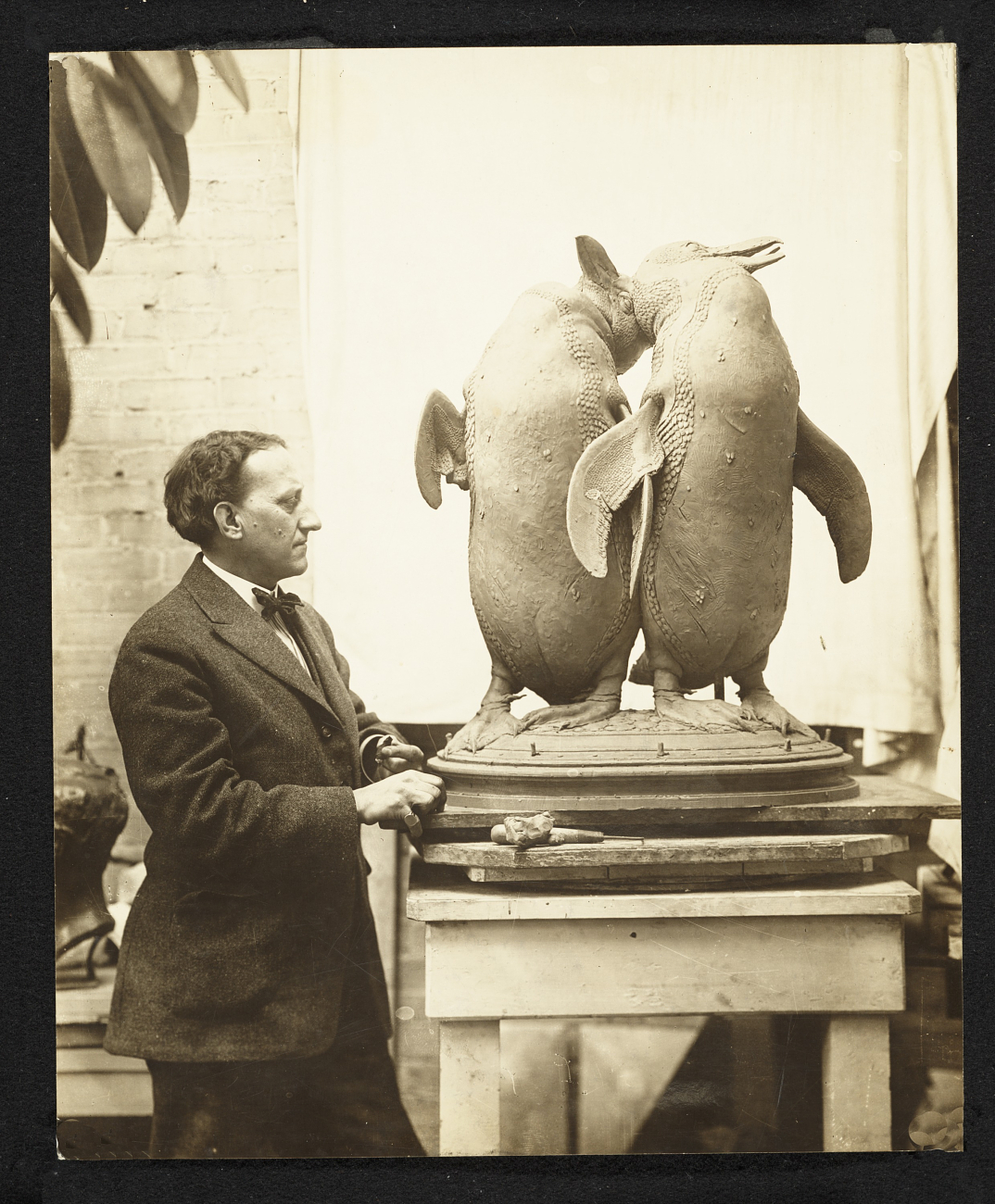 Photograph of Albert Laessle standing next to a statue of two penguins. Published in: Archives of American Art Journal v. 13, no. 1, p. 29 Albert Laessle, 1917 / Warren Chappell, photographer. Albert Laessle papers, Archives of American Art, Smithsonian Institution.